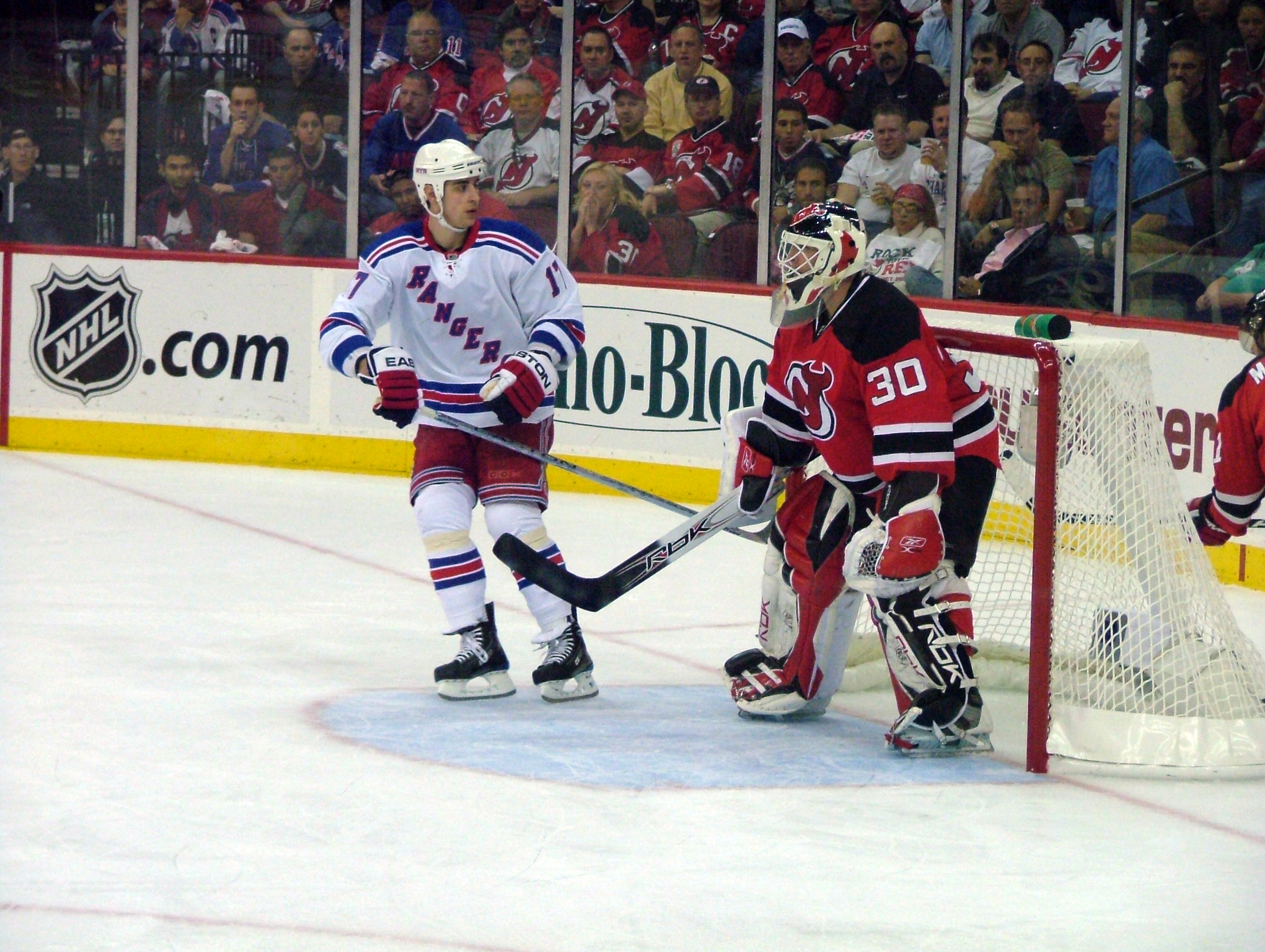 New York Ranger Brandon Dubinsky skates through the crease of New Jersey Devils goaltender Martin Brodeur during Game 5 of the Eastern Conference Quarterfinals in the 2008 NHL Stanley Cup Playoffs, played on April 18, 2008, at the Prudential Center in Newark, NJ